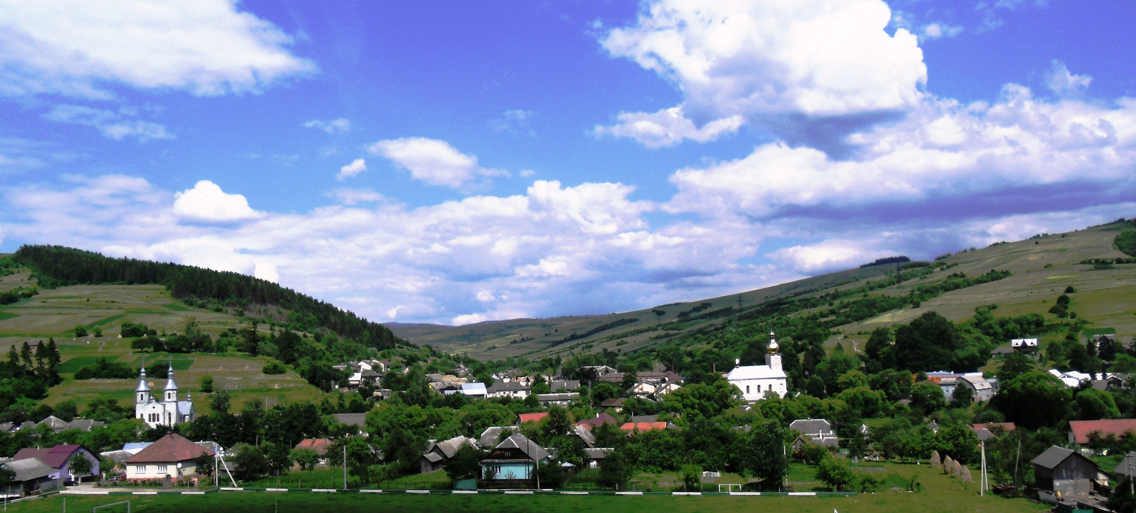 Nyzhni Vorota, Zakarpattia Oblast (previous name - Nizhniye Veretski)